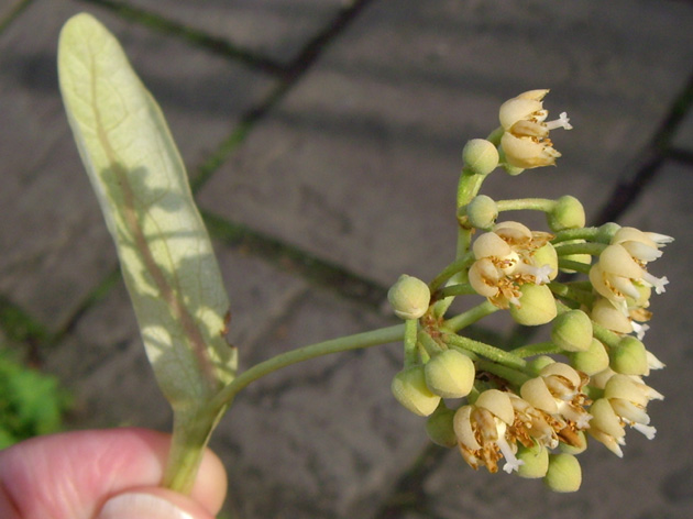 Flowers of Tilia henryana. Tree is in Norwich, Art Centre, St Benedikt Street.